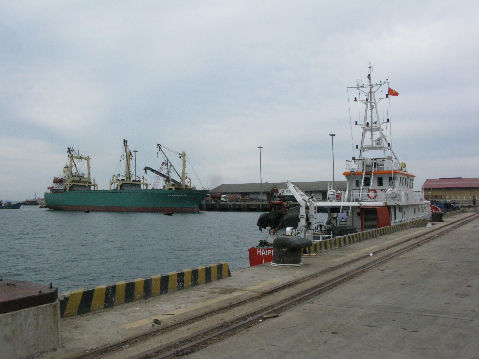 Vung Ang Port, Ha Tinh Province, Vietnam